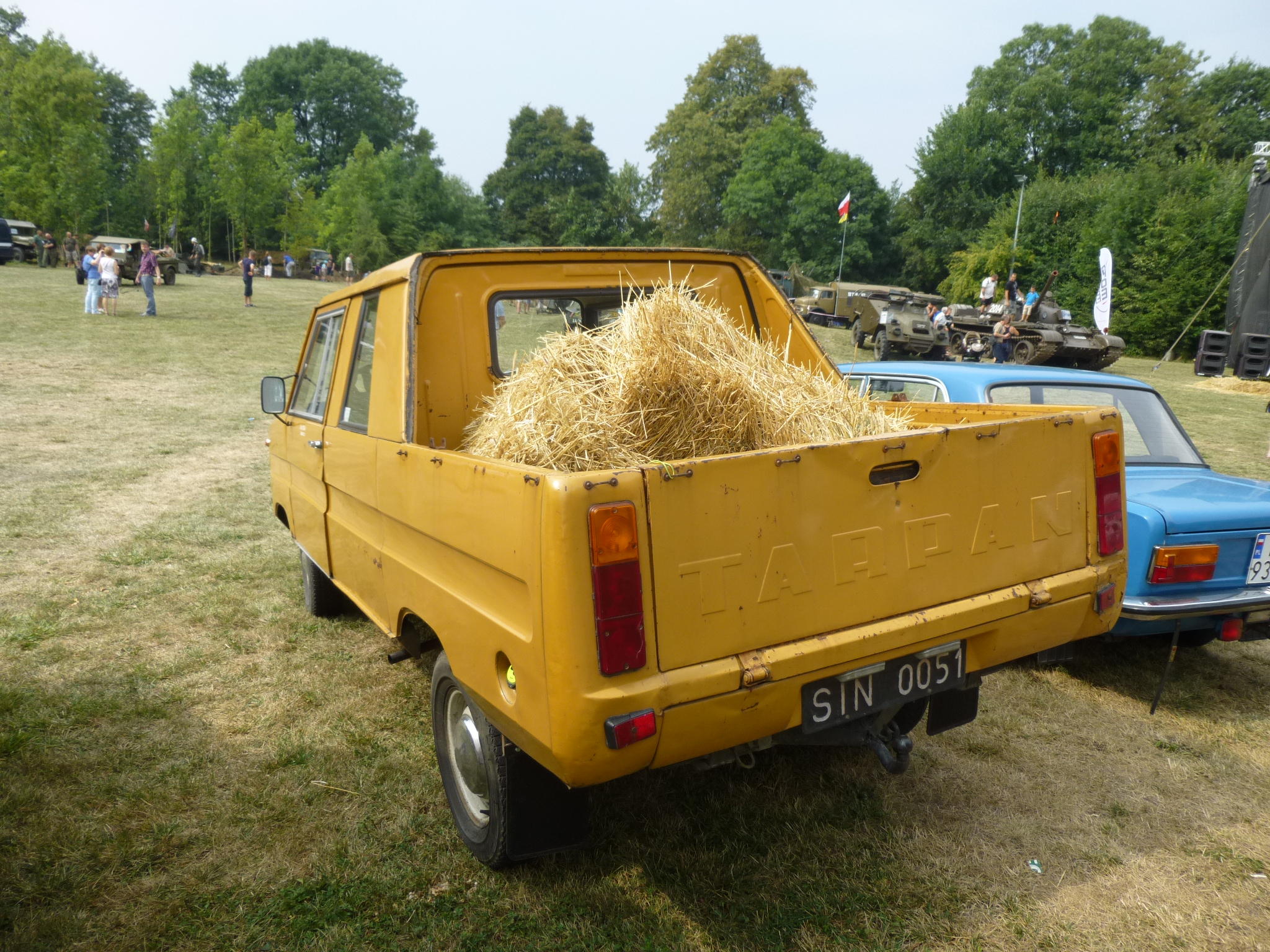 Tarpan 233 SO at 2015 Motoclassic Wrocław